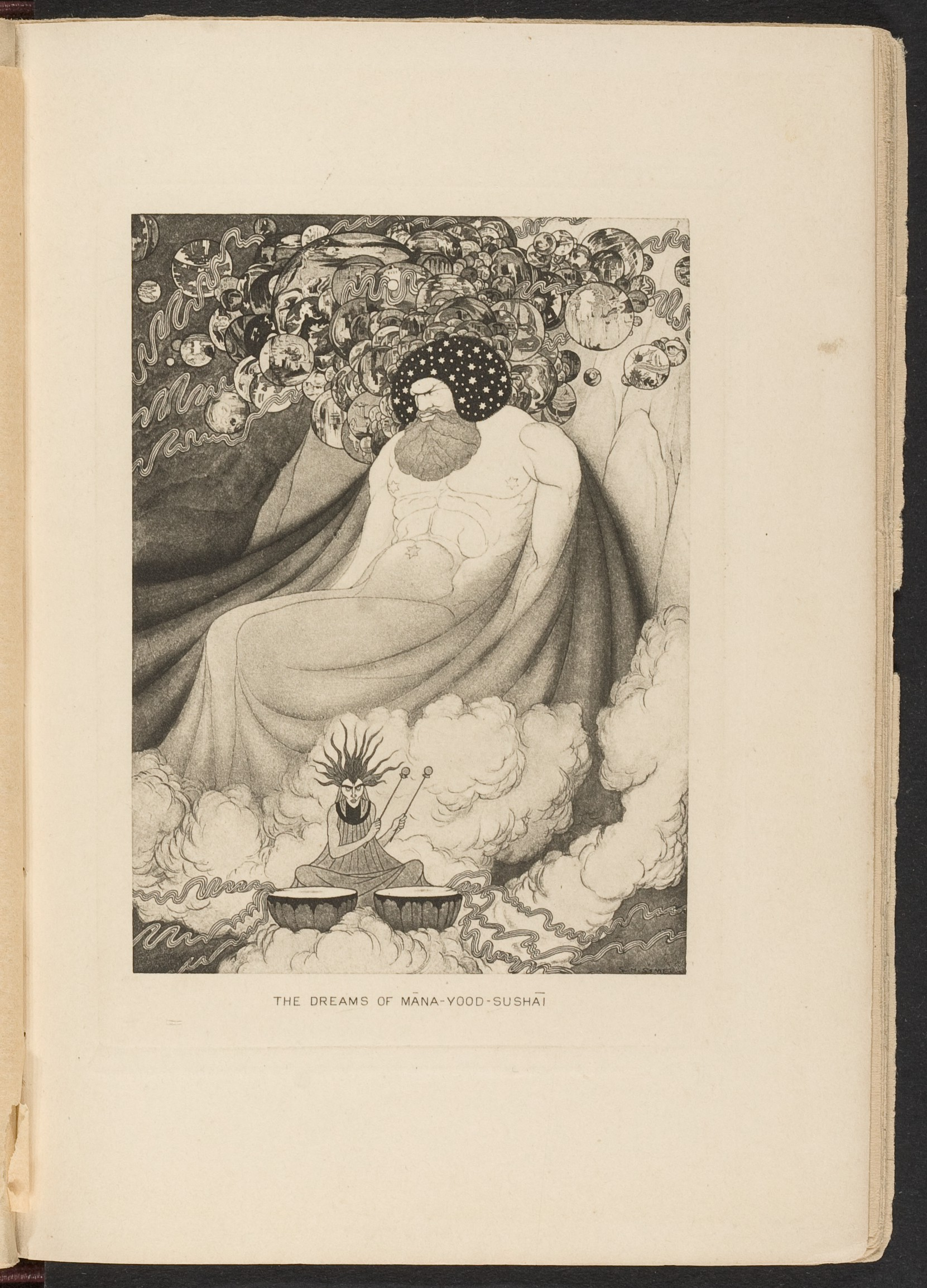 Illustration from The Gods of Pegāna by Lord Dunsany